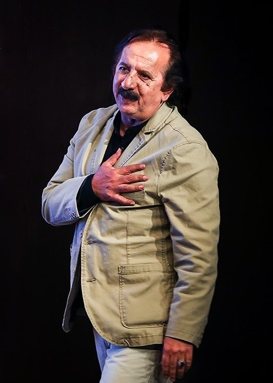 Iranian cinema director, Majid Majidi in Islamic Republic's cultural person of the year ceremony